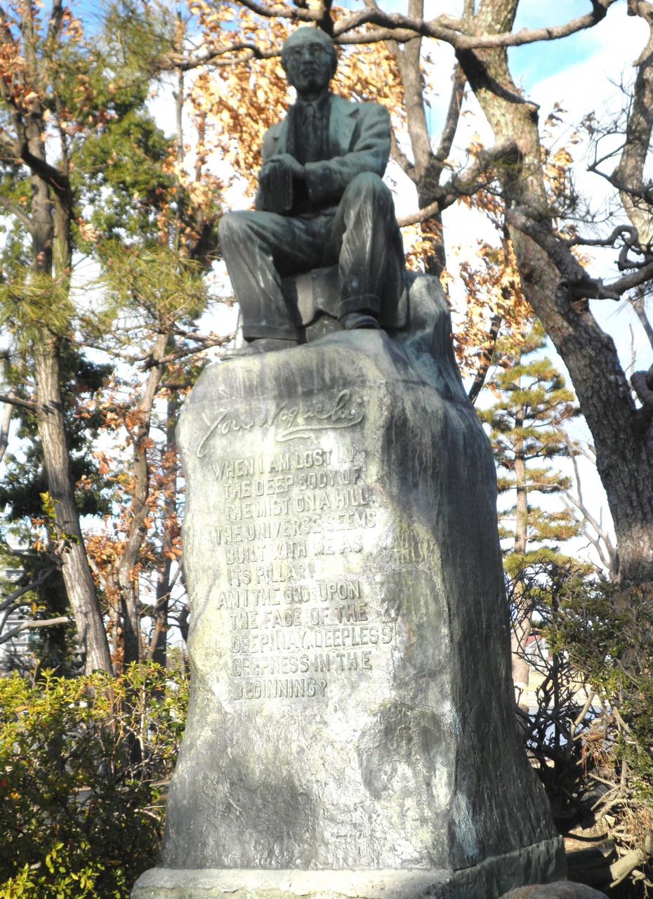 The statue of Yone Noguchi at Tennōgawa Park in Tsushima, Aichi.